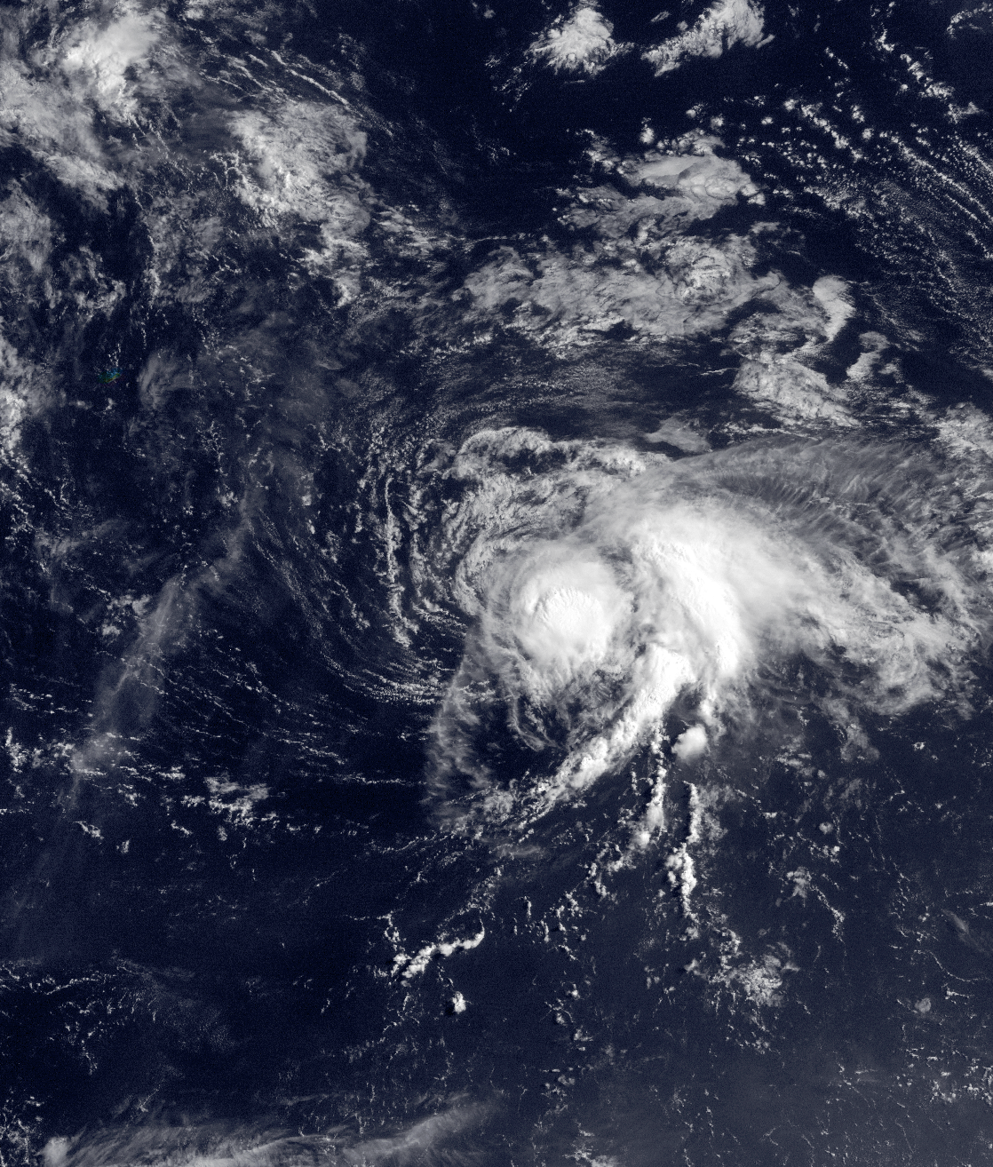 Tropical Storm Arlene over the open Atlantic Ocean on June 13, 1999.